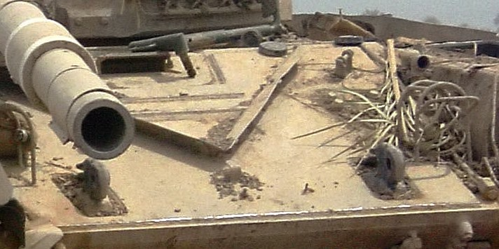 Detail of the glacis of an Iraqi T-72, showing the layer armor plate.